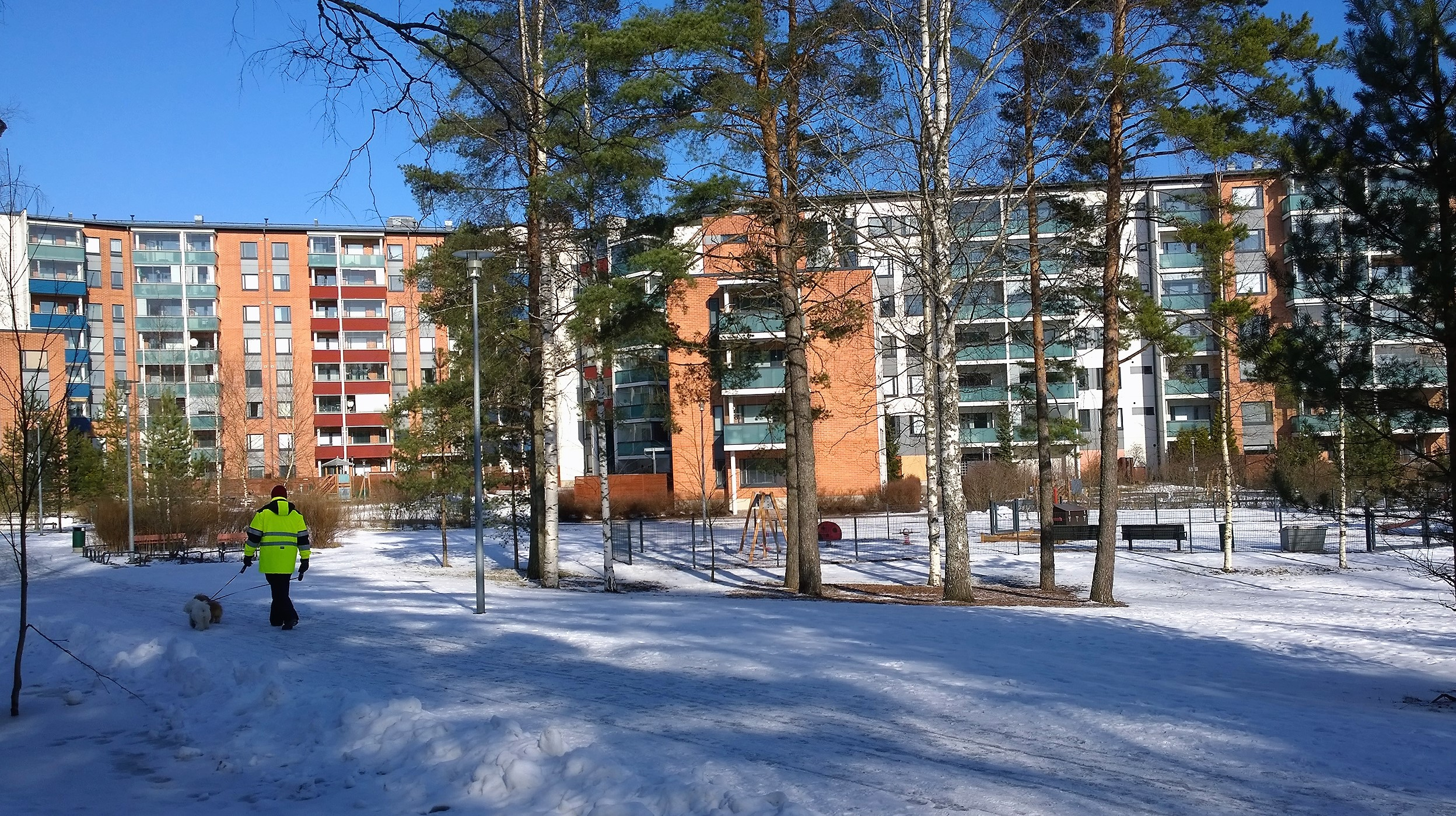 These apartment buildings act as barriers against street noise towards Espoonlahti Center.